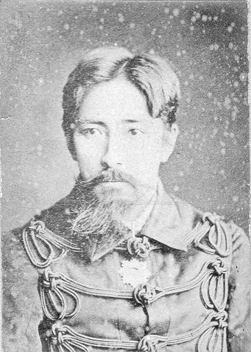 Major General Michitsura Nozu.(Imperial Army)